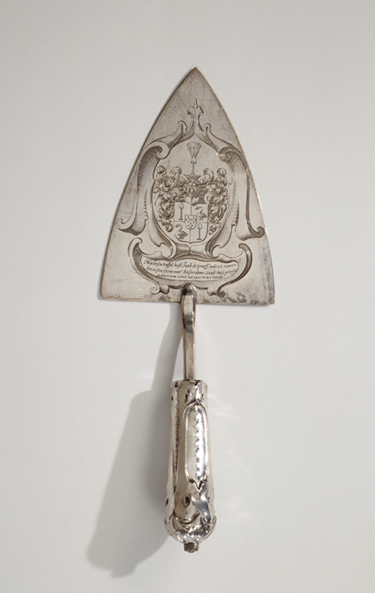 Silver trowel commemorating the cornerstone ceremony of the Amsterdam Town Hall in 1648, containing the coat of arms of Jacob de Graeff, who carried out the ceremony.